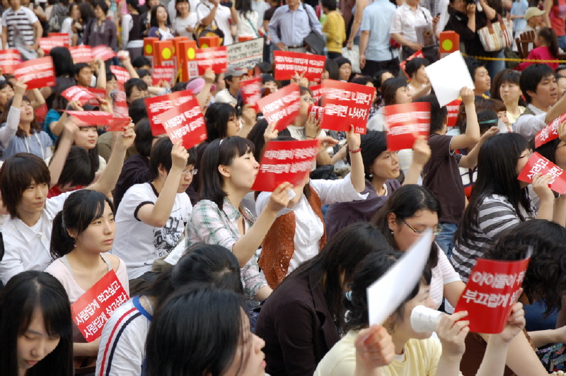 Picture of South Korea's Protest Against Importing American Beef in Cheonggyecheon area, on May 3, 2008